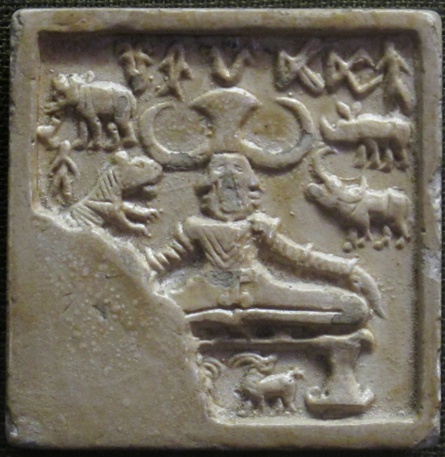 Male figure in a "yogic" posture resembling Mulabandhasana, surrounded with animals, resonating with the images of the later Hindu god Shiva. Impression of the [ Pashupati seal from the Indus valley Civilization, 2500-1500 BC. Chhatrapati Shivaji Maharaj Vastu Sangrahalaya (ex Prince of Wales Museum), Mumbai. India.